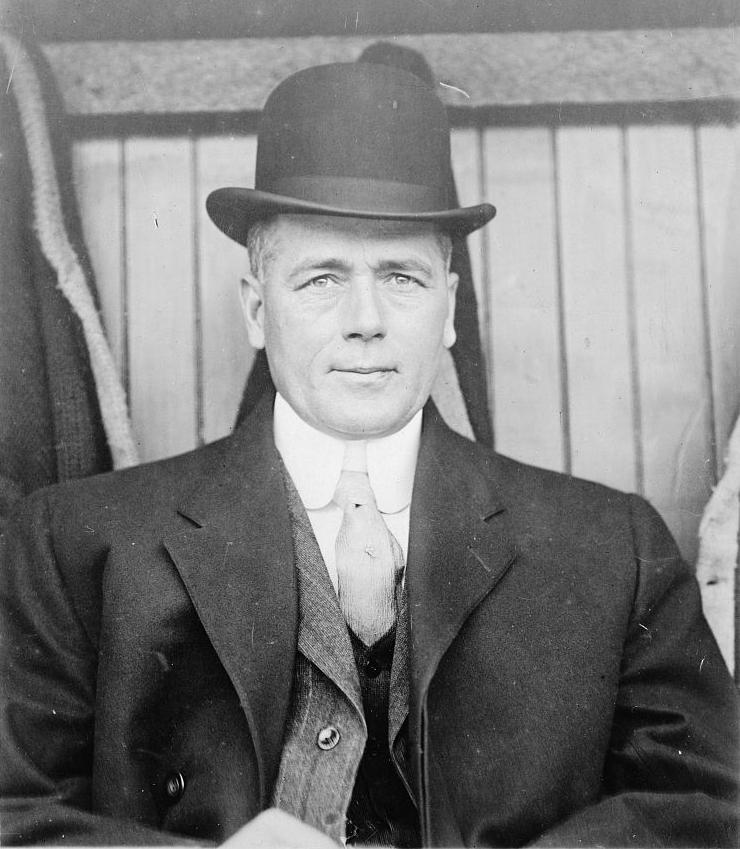 Patrick Joseph "Patsy" Donovan, Boston Red Sox baseball manager, head-and-shoulders portrait, facing front, wearing coat and derby